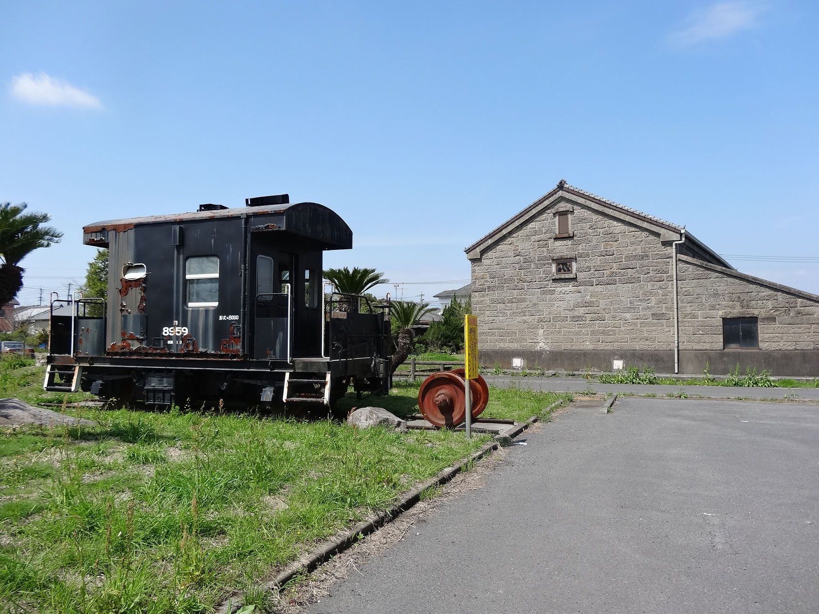 The ruin of JNR Higashi-Kushira Station (Higashikushira Town, Kagoshima Prefecture, Japan)